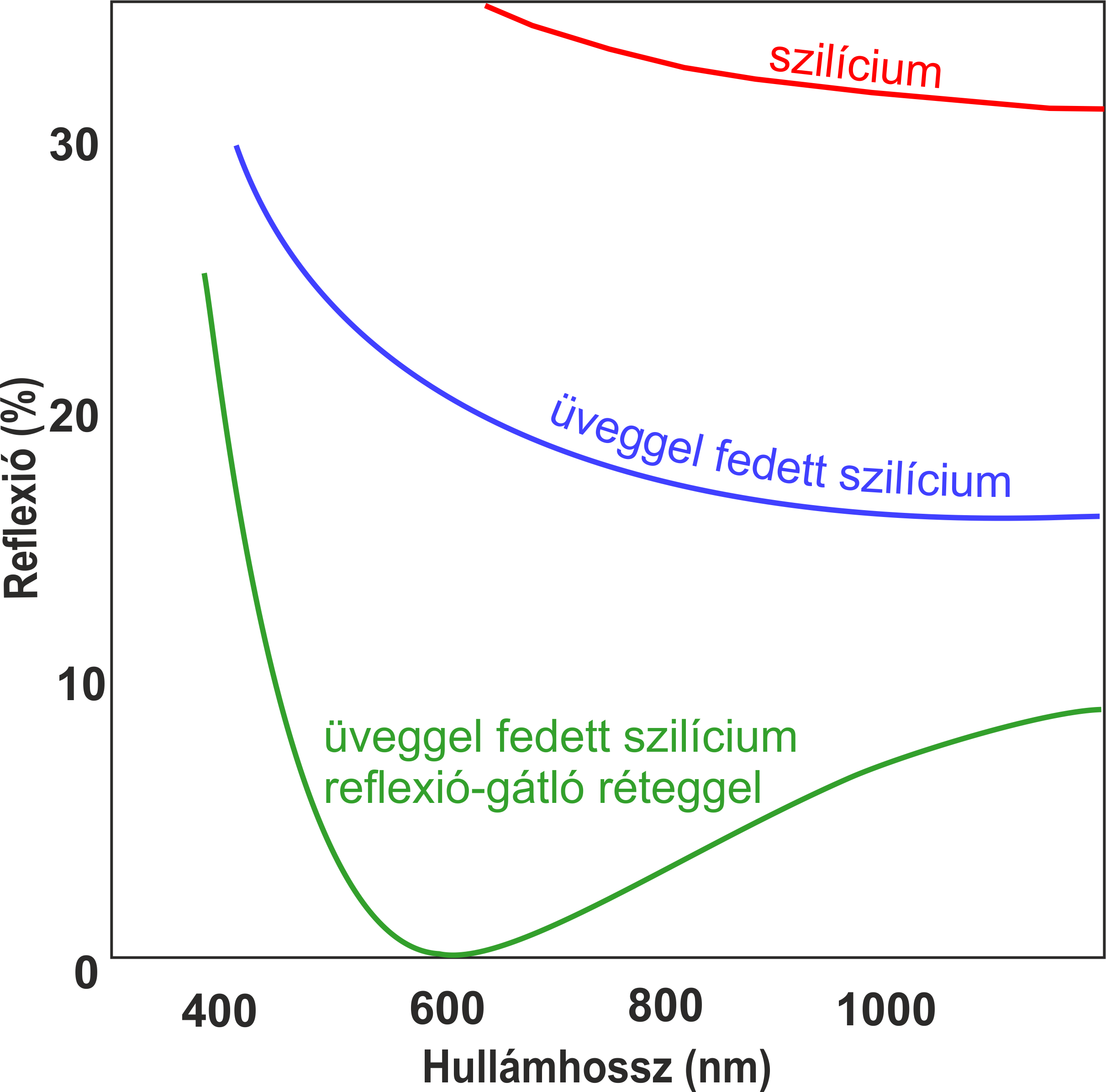 The reflectivity of a silicon cell (red), a glass-coated silicon cell (blue) and a cell, coated with an anti-reflection layer under the glass (green) as a function of wavelength. ARC significantly reduces reflectivity, for light with a wavelength of 600 nm, the amount of reflection approaches zero.